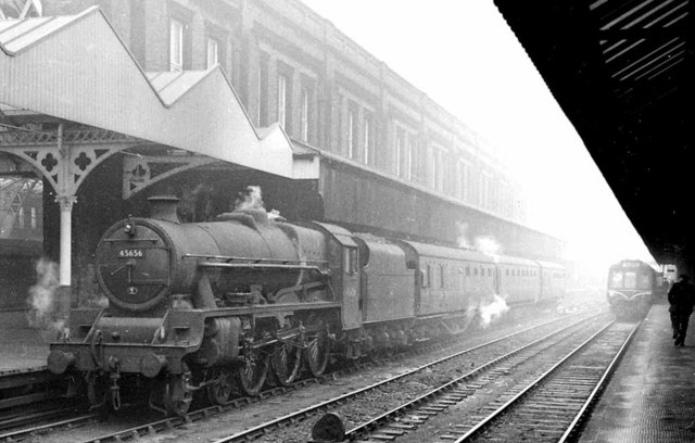 Manchester Central Station on a winter's day. View NE towards buffer-stops, with LMS 'Jubilee' 6P 4-6-0 No. 45656 'Cochrane' on a local train to Chinley and a Diesel Multiple Unit ahead - probably on a Cheshire Lines service. It was a grim railway Station in those days and was closed in May 1969, to become later the G-MEX Centre